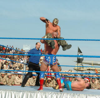 WWE wrestlers Rey Mysterio (Oscar Gutierrez), Kurt Angle and Eddie Guerrero perform for troops in Iraq.